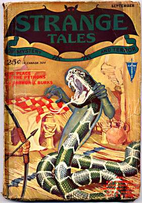 Cover of the pulp magazine Strange Tales of Mystery and Terror (September 1931) featuring "The Place of the Pythons" by Arthur J. Burks